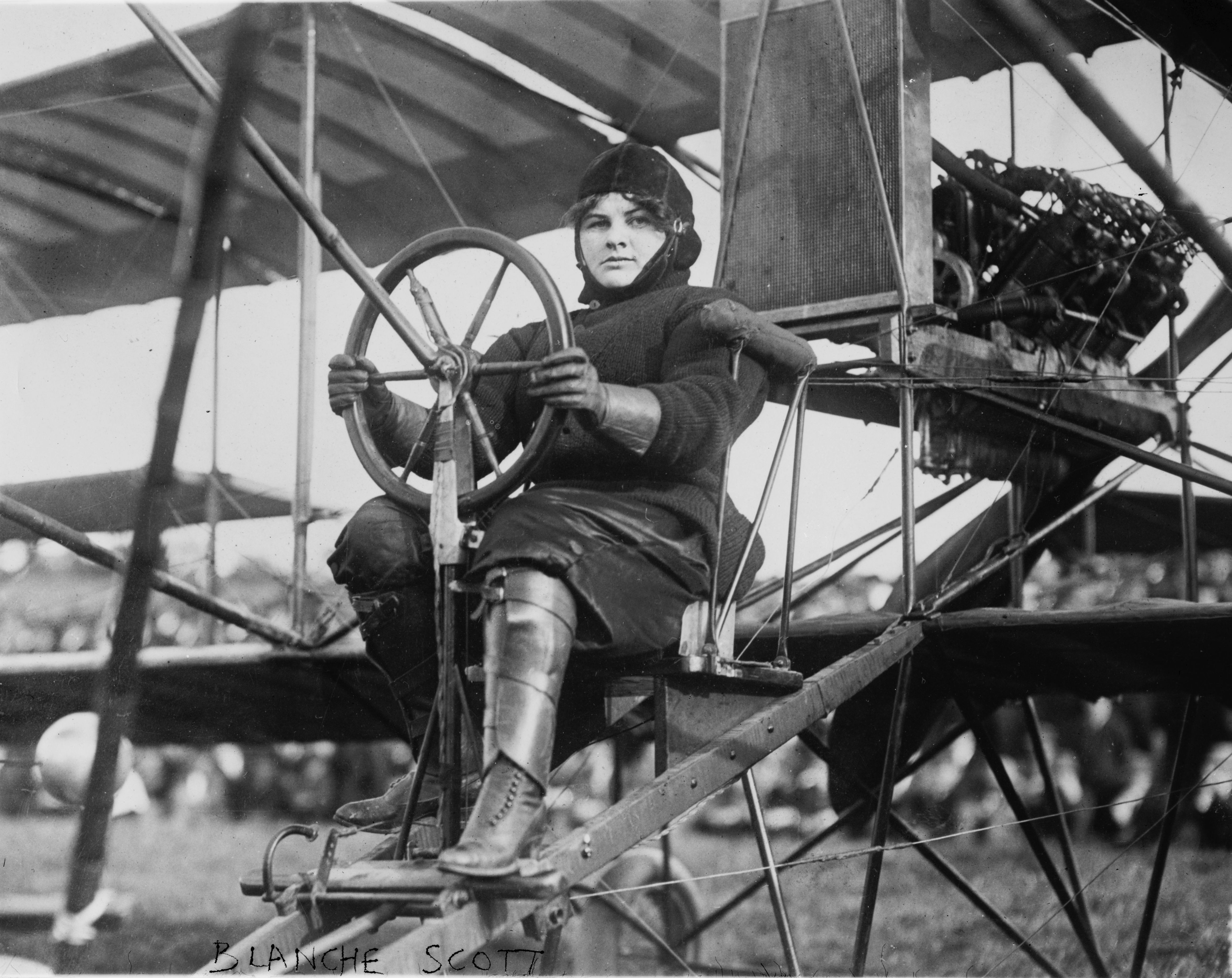 Blanche Stuart Scott in her biplane